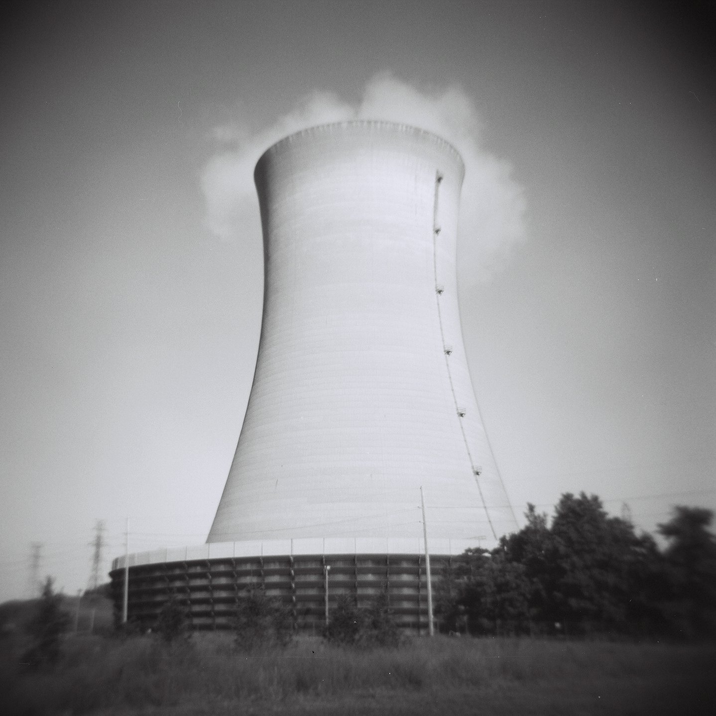 The chiller or cooling tower of the Michigan City Generating Station — the most ubiquitous symbol of Michigan City, Indiana. Taken with Holga 120 TLR.